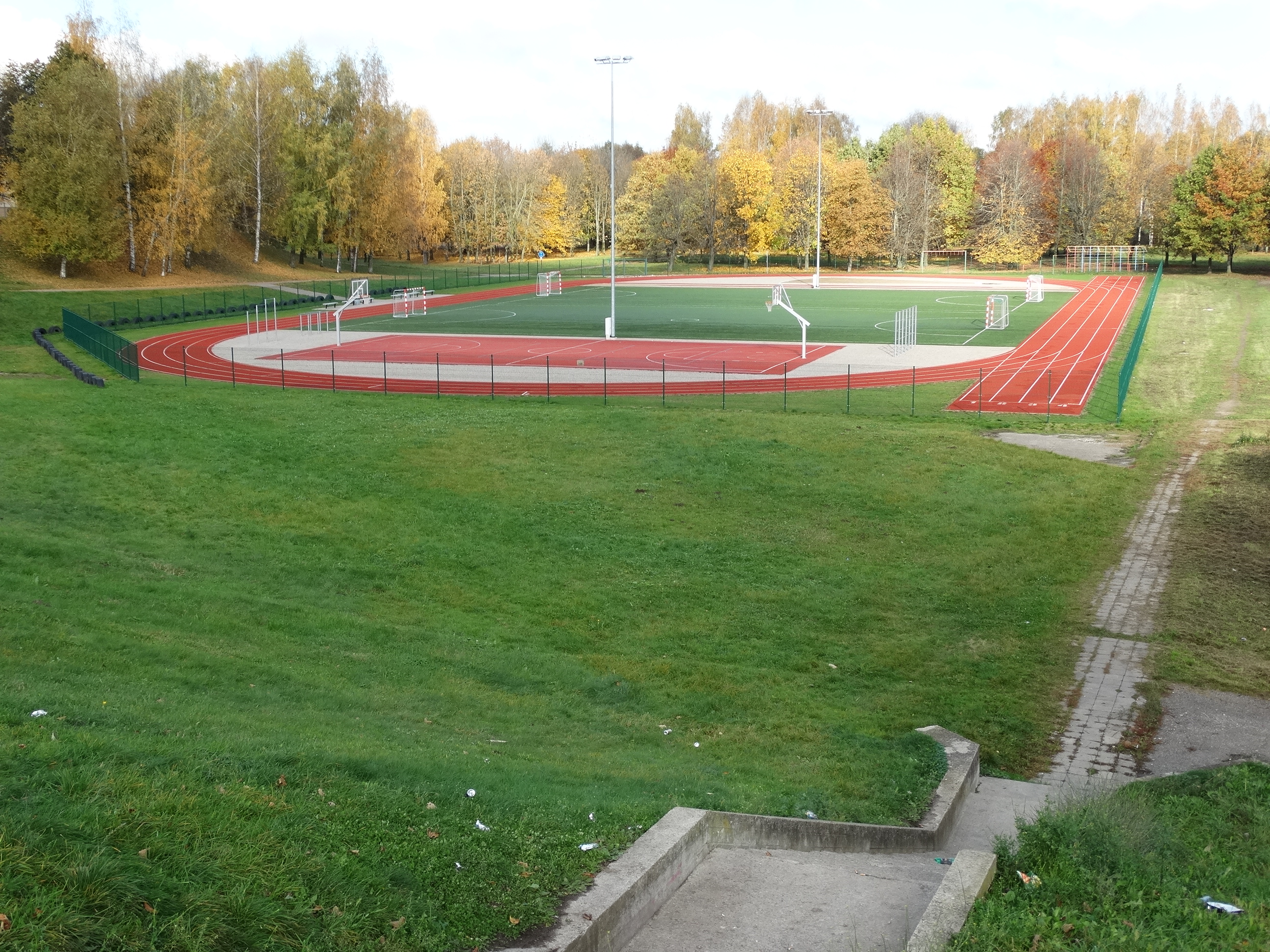 Sūduva Gymnasium, stadium, Marijampolė, Lithuania